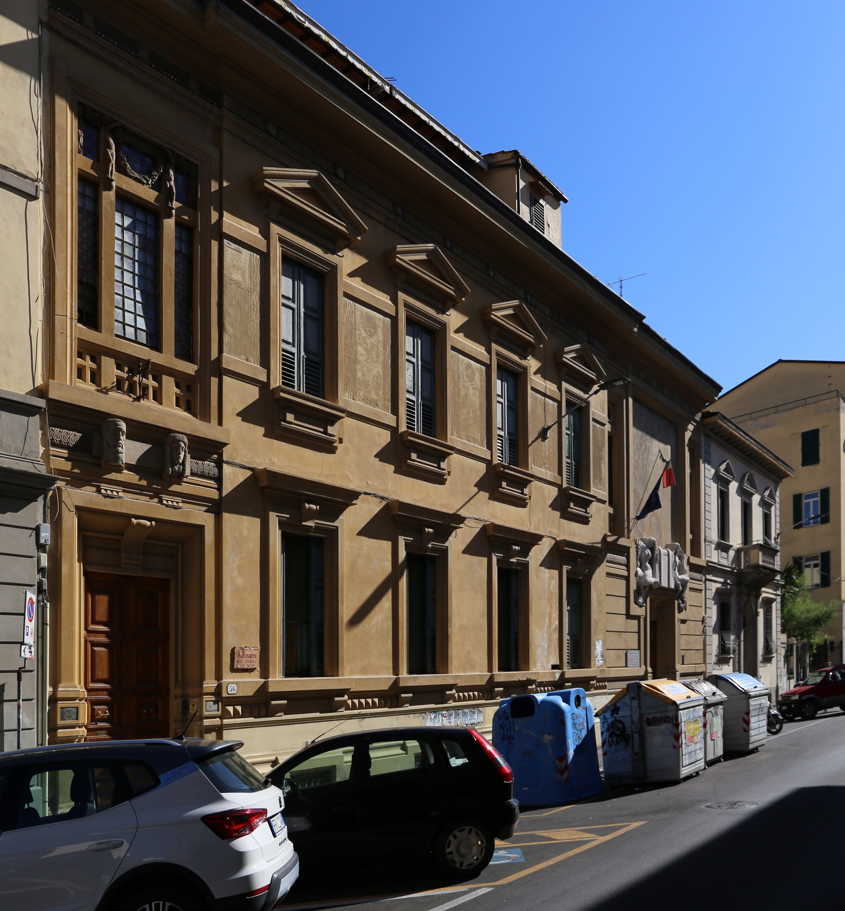 Casa-studio di Galileo Chini